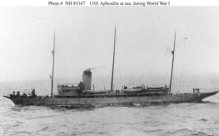 United States Navy patrol vessel USS Aphrodite (SP-135) during World War I